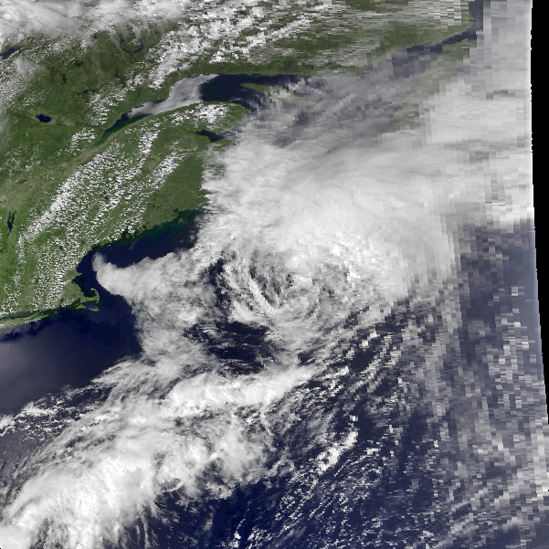 Tropical Storm Ana off the coast of Nova Scotia on July 18, 1985.